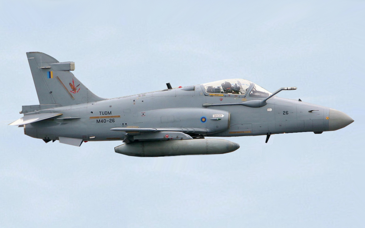 modified verison on this file